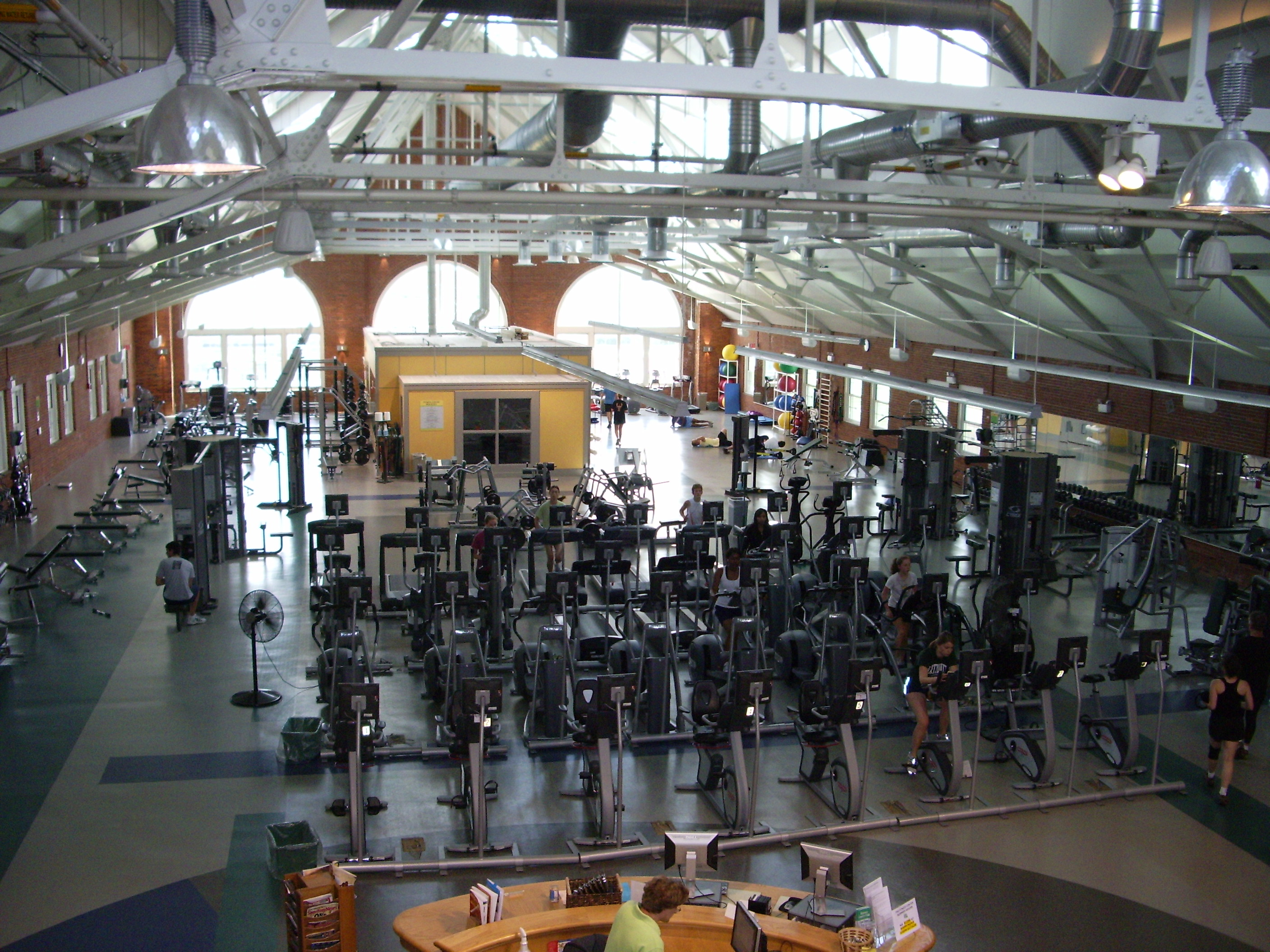 Photograph of the Alumni Gymnasium at the campus of Dartmouth College in Hanover, New Hampshire.